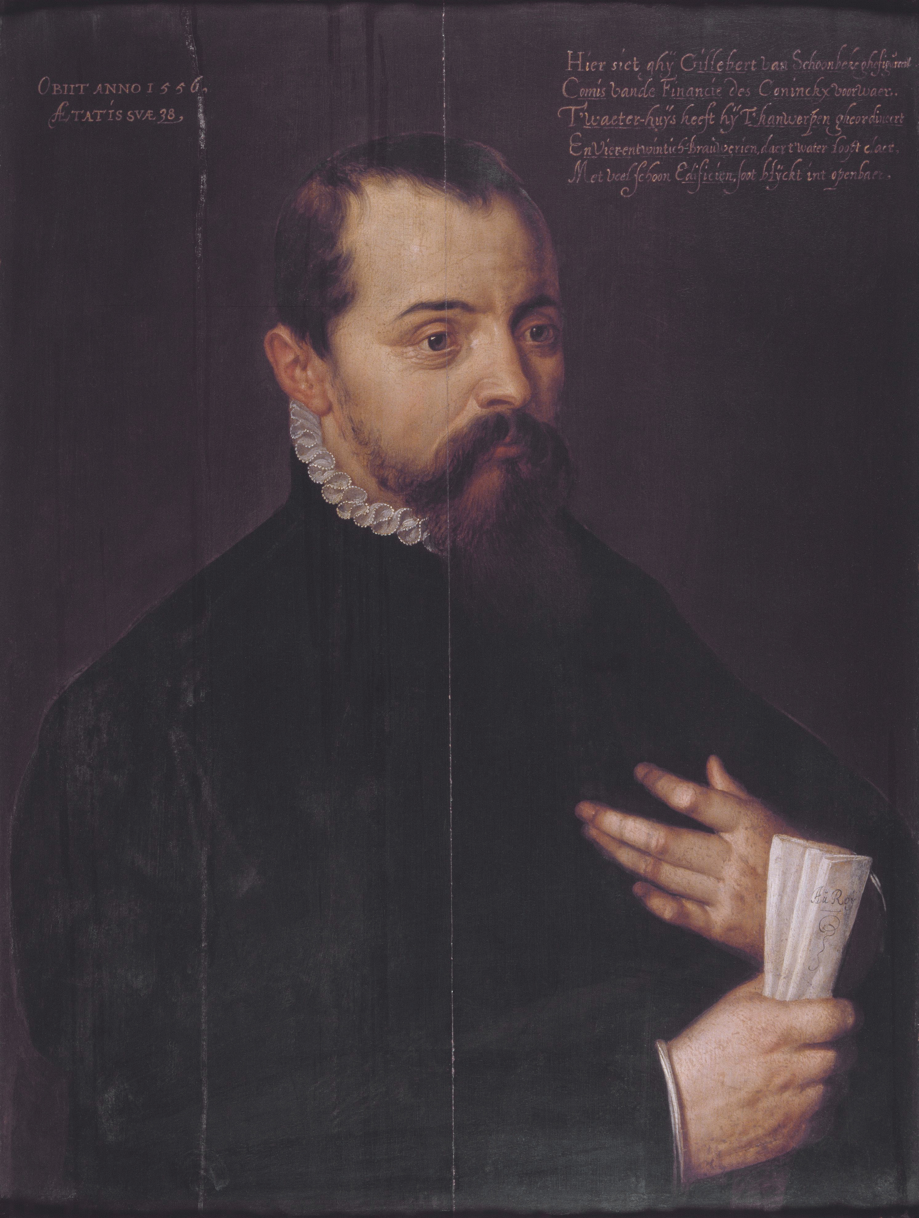 Gilbert van Schoonbeke